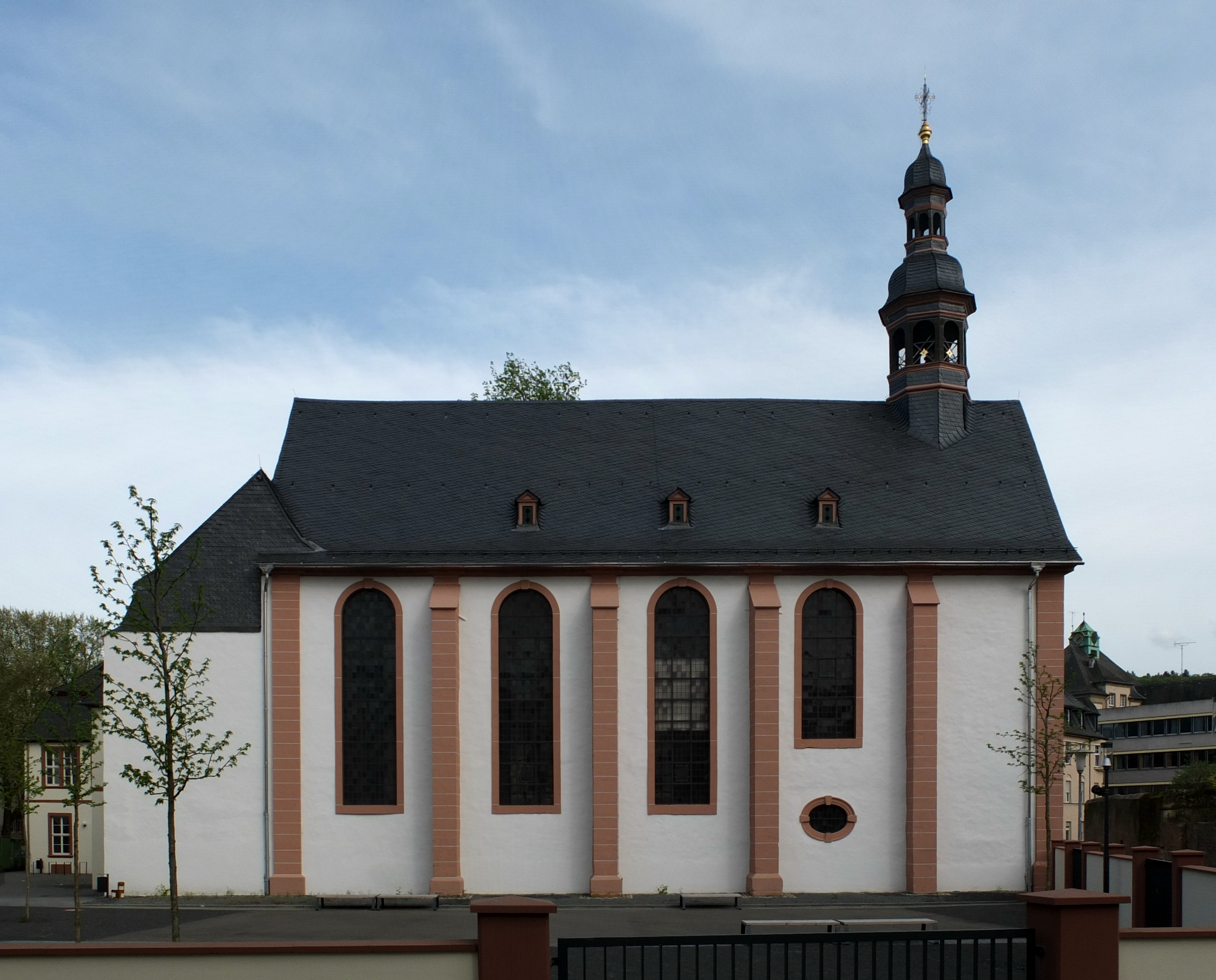 Welschnonnenkirche in Trier, Germany (view NW).